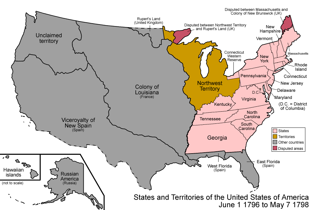 Map of the states and territories of the United States as it was from 1796 to 1798. On June 1, 1796, the Southwest Territory was admitted as the state of Tennessee. On May 7, 1798, the United States created Mississippi Territory from the territory awarded to it by "Pinckney's Treaty" in 1795, which Georgia considered to be a part of its western land claim.